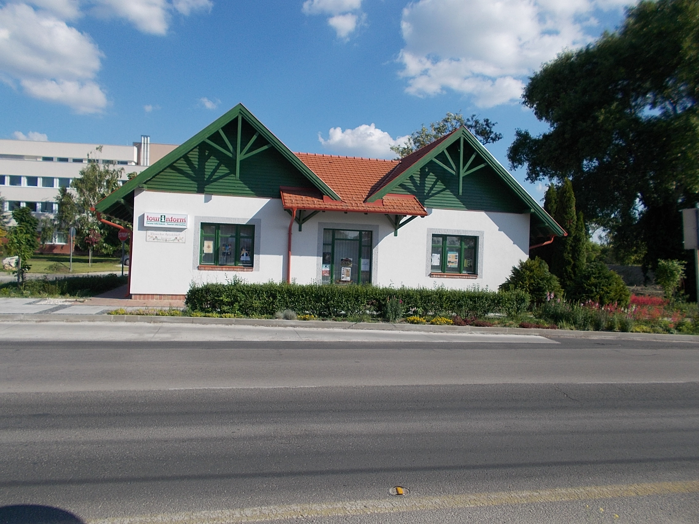 Tourinform Gárdony. - 24 Szabadság út, Agárd, Gárdony, Fejér County, Hungary.